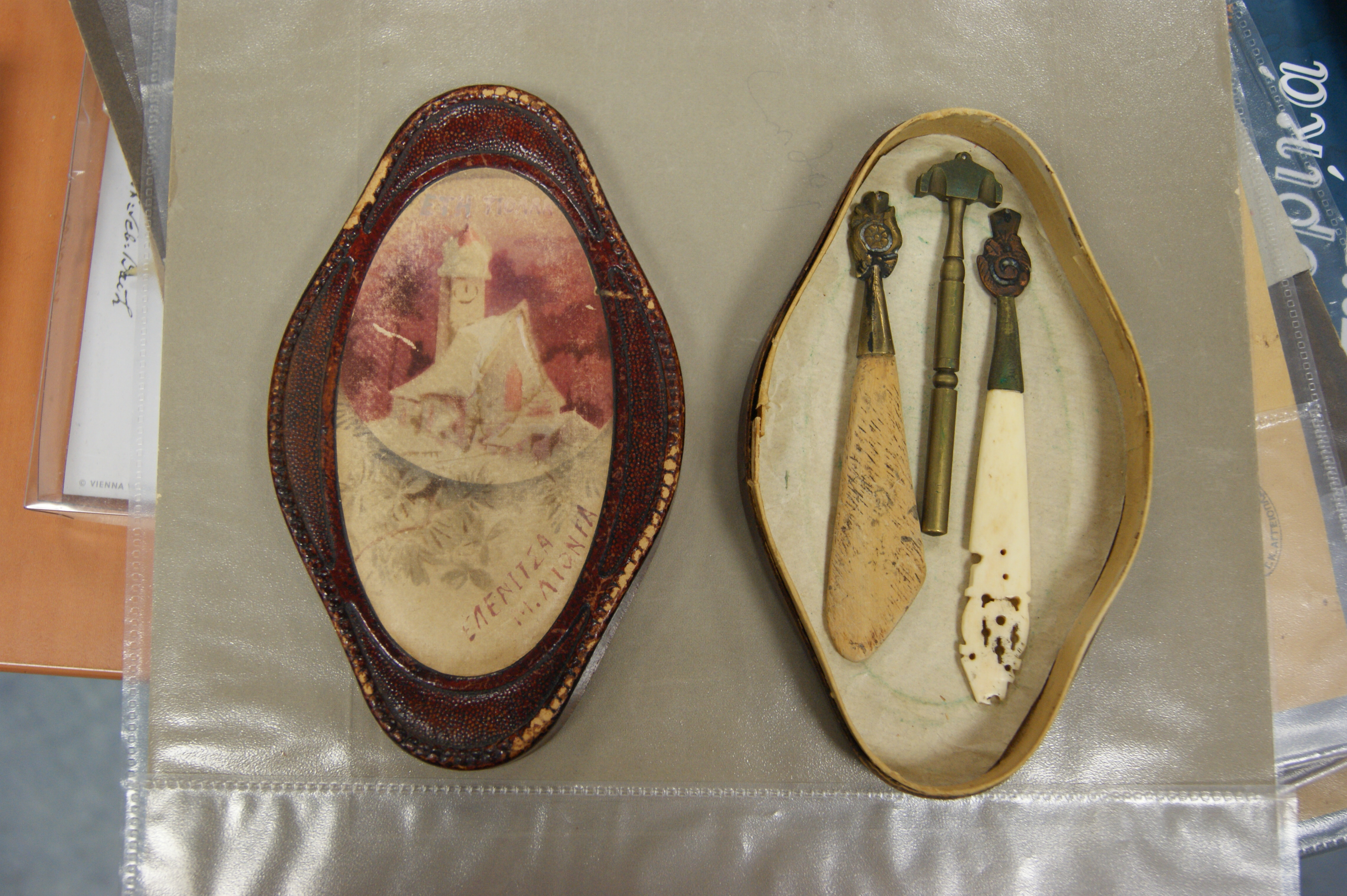 Photographic Instruments of Mihail Liontas, Thessaloniki